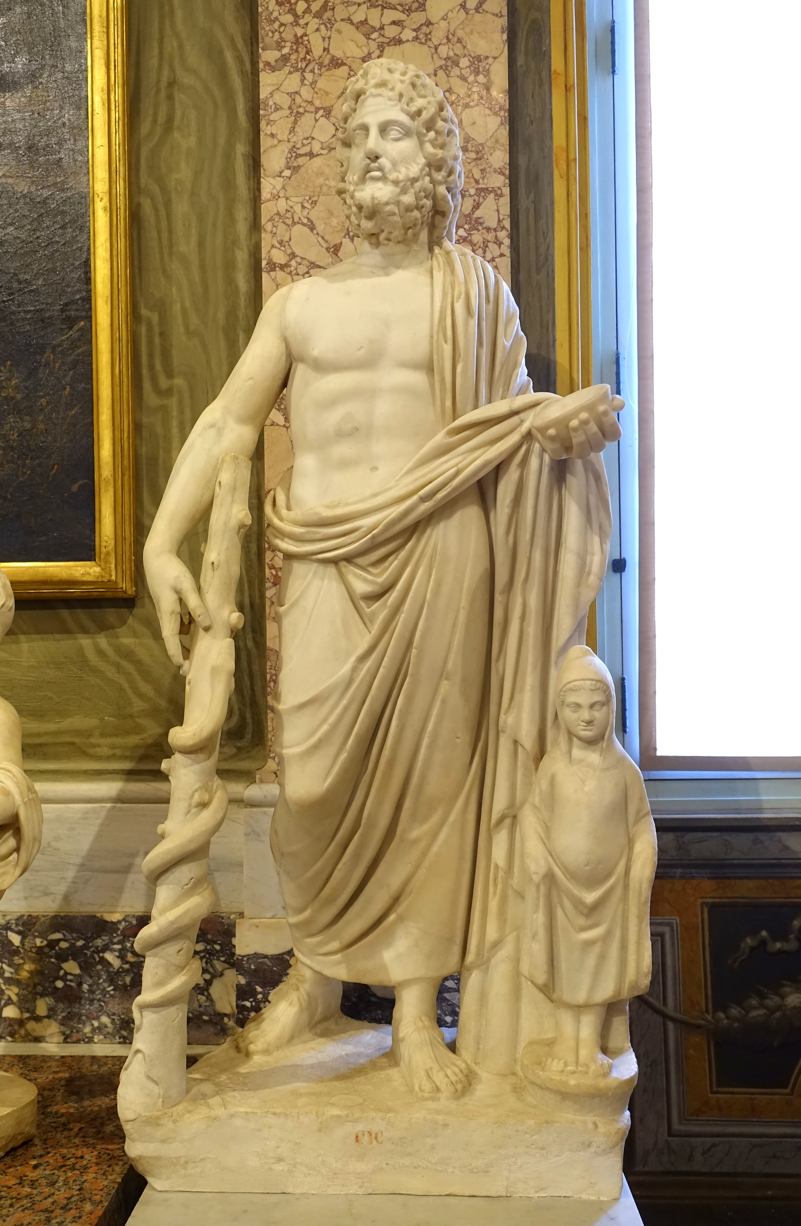 Exhibit in the Galleria Borghese - Rome, Italy.